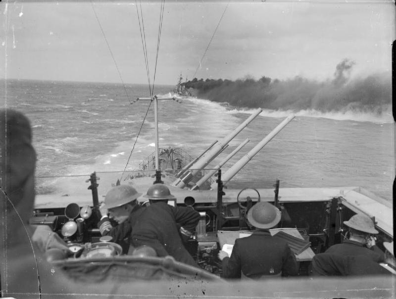 IWM caption : ROYAL NAVY CONVOY FROM ALEXANDRIA TO MALTA MEETS AND ENGAGES ITALIAN WARSHIPS IN THE MEDITERRANEAN. HMS CLEOPATRA throws out smoke to shield the convoy as HMS EURYALUS elevates her forward 5.25 inch guns to shell the Italian Fleet. Comment : This was the Second Battle of Sirte.